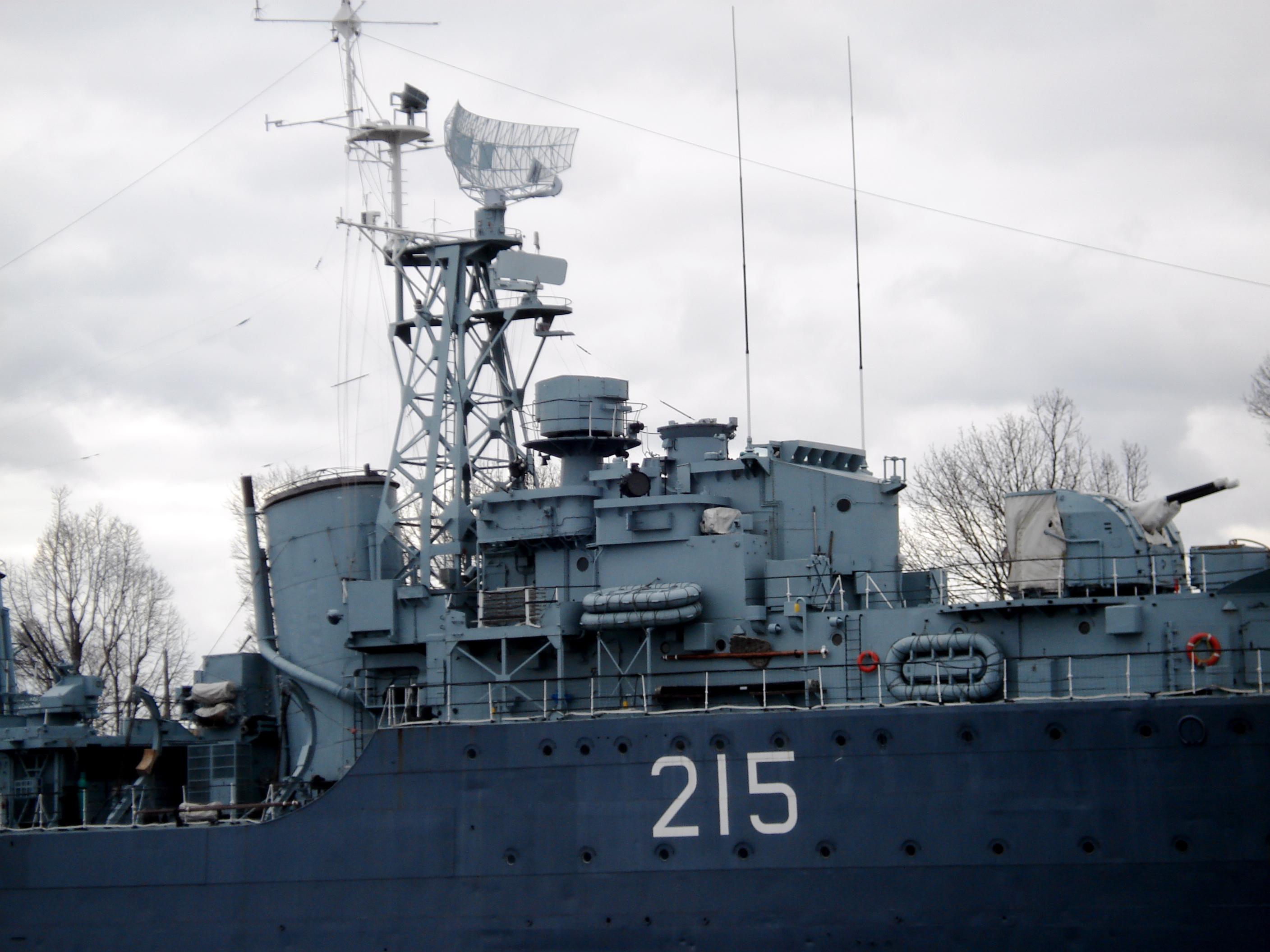 Destroyer HMCS Haida moored as museum ship at Hamilton, Ontario. Photo taken on December 2, 2006. Source: Photo by me, User:Balcer.